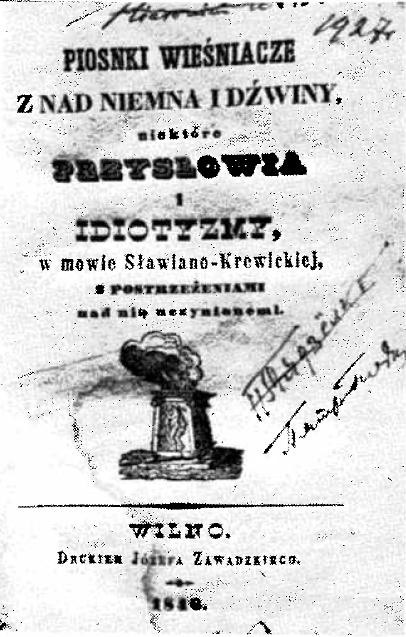 Piosnki wieśniacze znad Dźwiny. Wilno, 1846. by Jan Czeczot Беларуская (тарашкевіца): Вокладка кнігі ««Сялянскія песенькі з-пад Нёмана і Дзьвіны, некаторы прыказкі на славяна-крывіцкай мове і яе самабытныя словы, з назіраньнямі над гэтай мовай»» 1846 году Яна Чачота